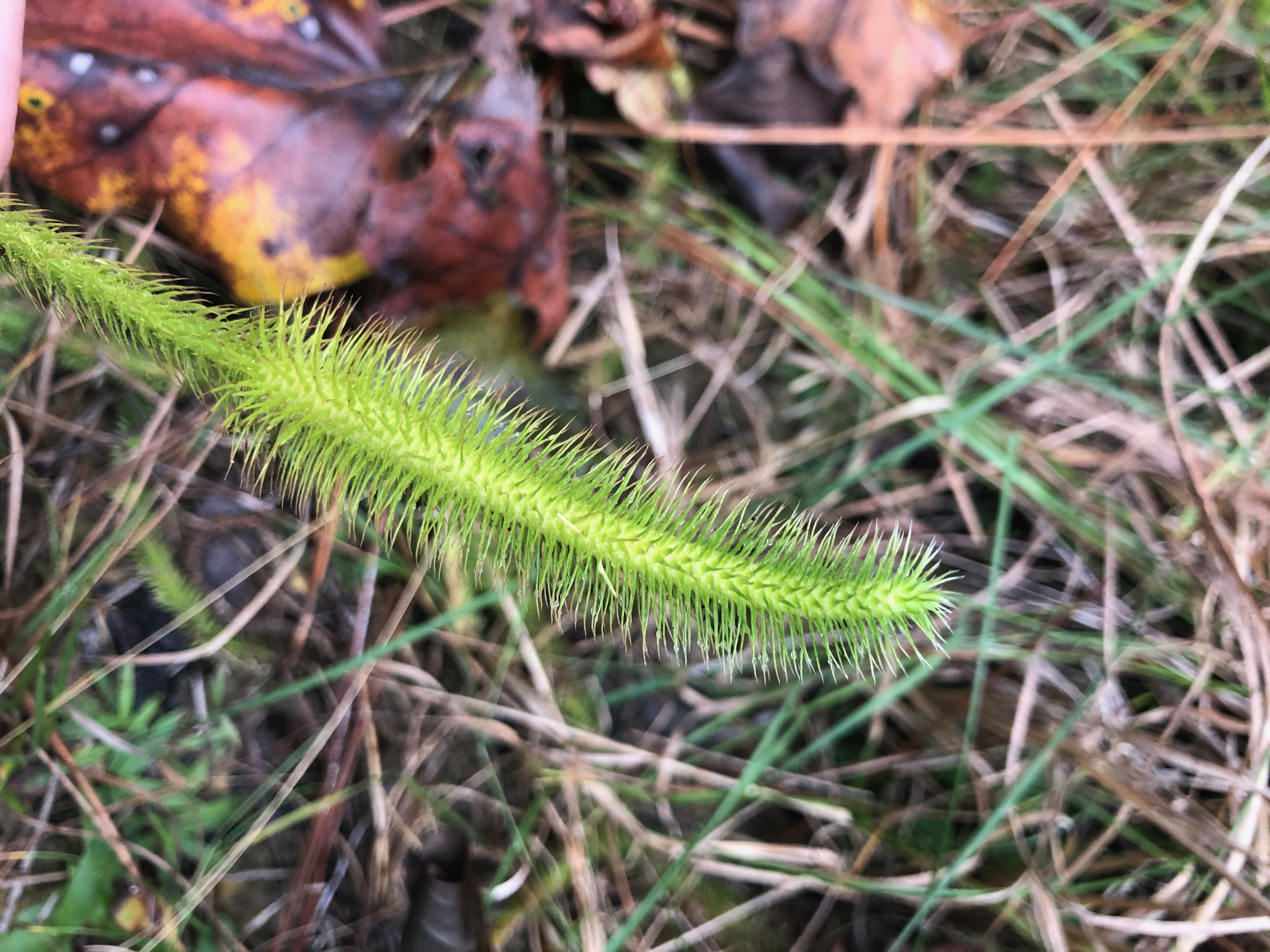 This is a photo of Lycopodiella alopecuroides taken in Hattiesburg, MS.